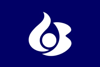 Flag of Shirosato Ibaraki